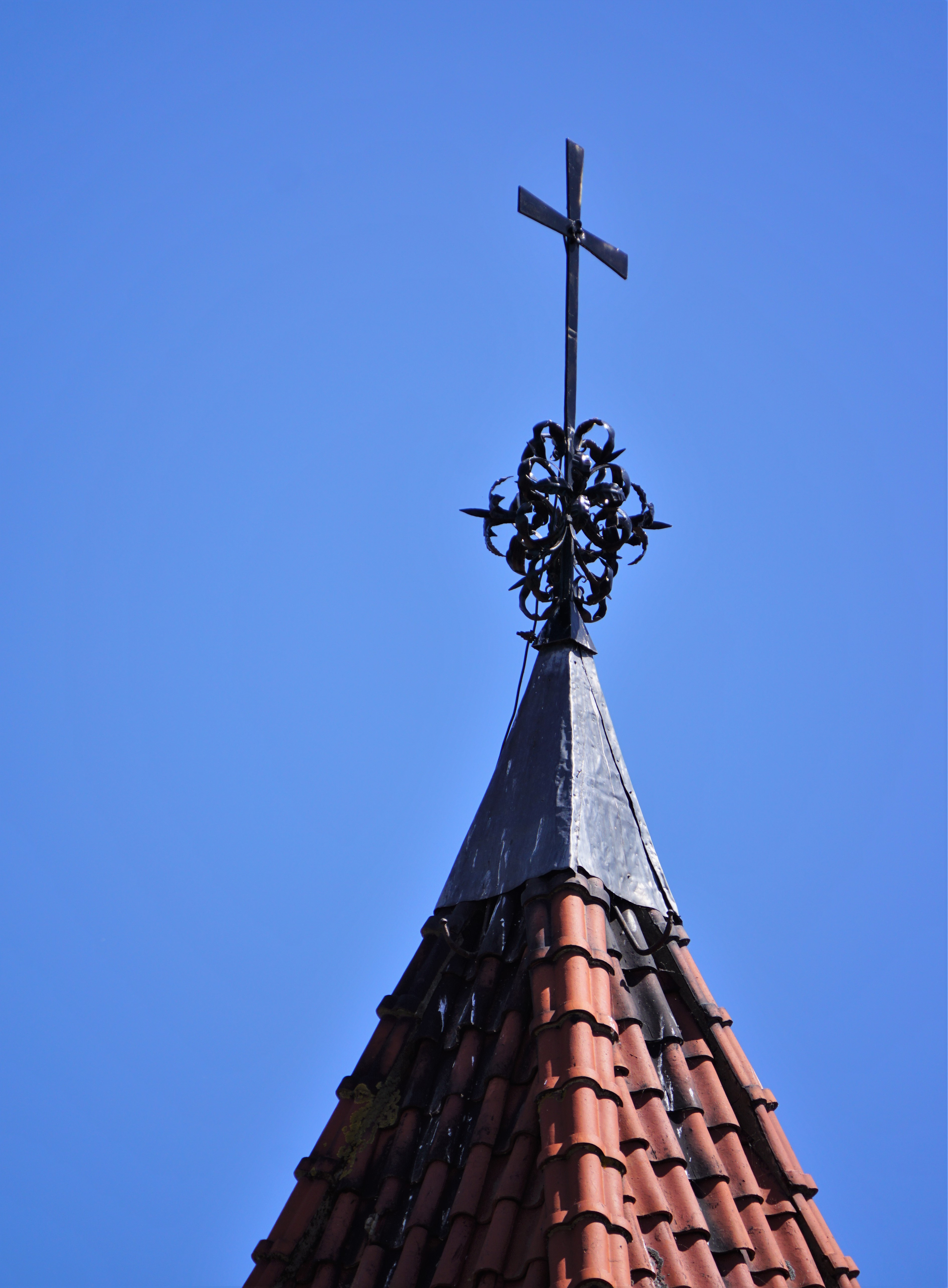 Spire of the church in Wehningen in Amt Neuhaus, district Lüneburg.